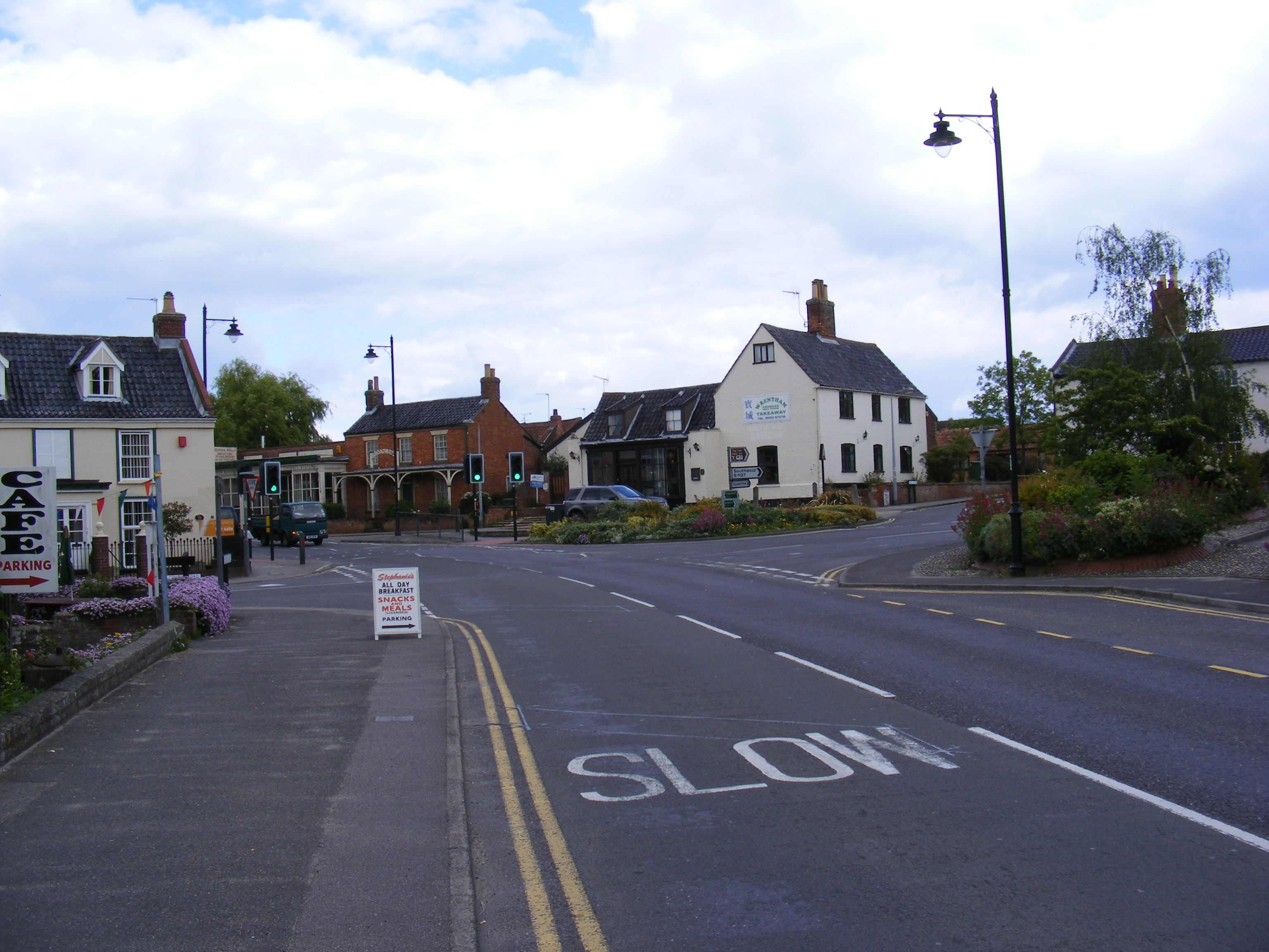 A12 London Road, Wrentham Looking towards the centre of Wrentham and Lowestoft